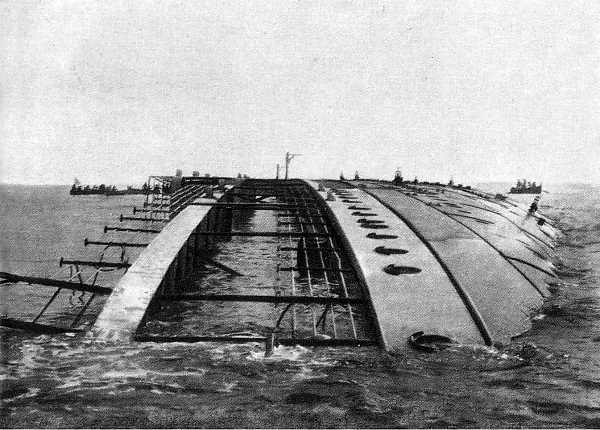 The sinking of the SS "Principessa Jolanda" off Riva Trigoso, near Genoa, Italy